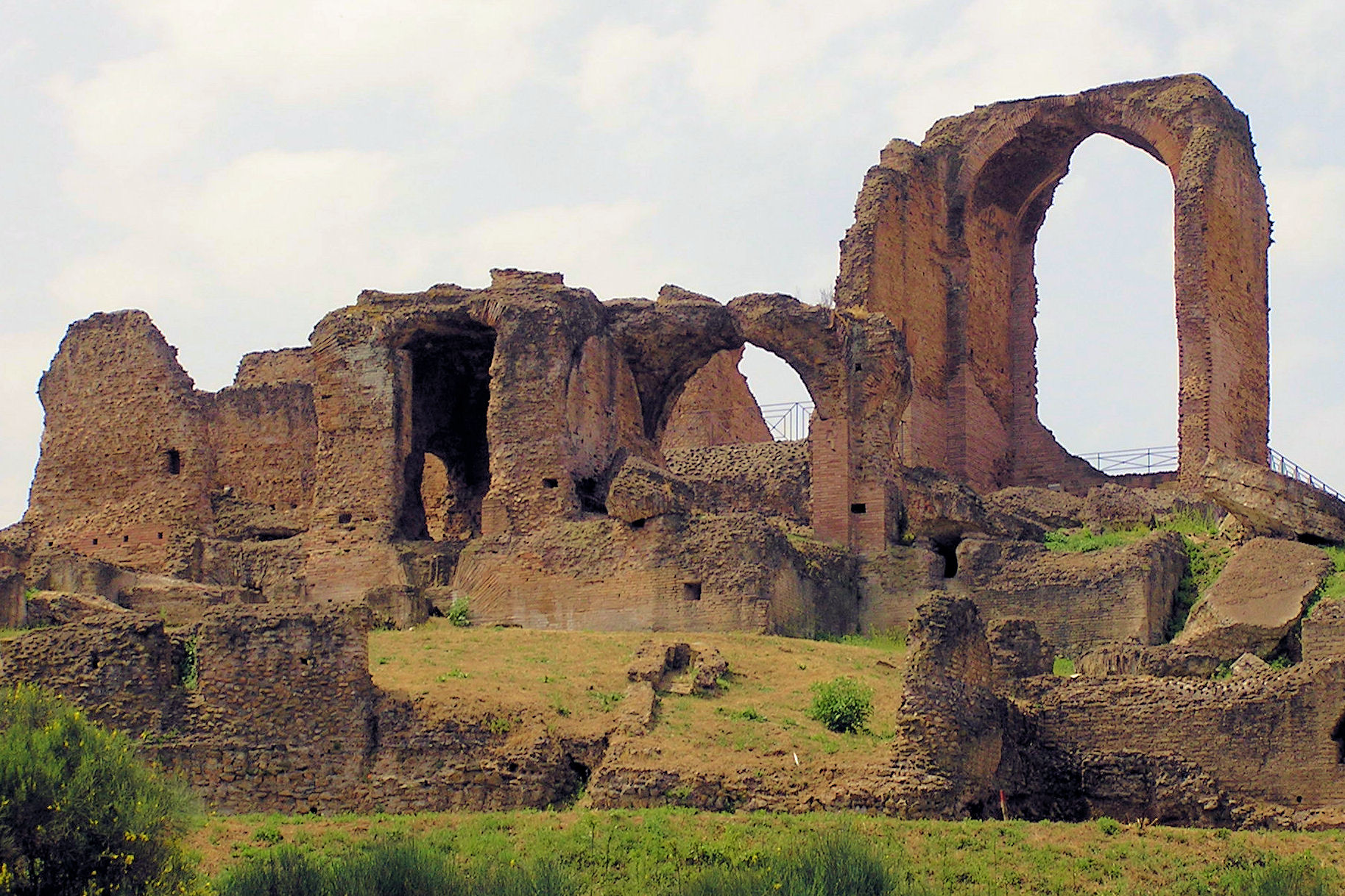 Villa of Quintilius in Rome